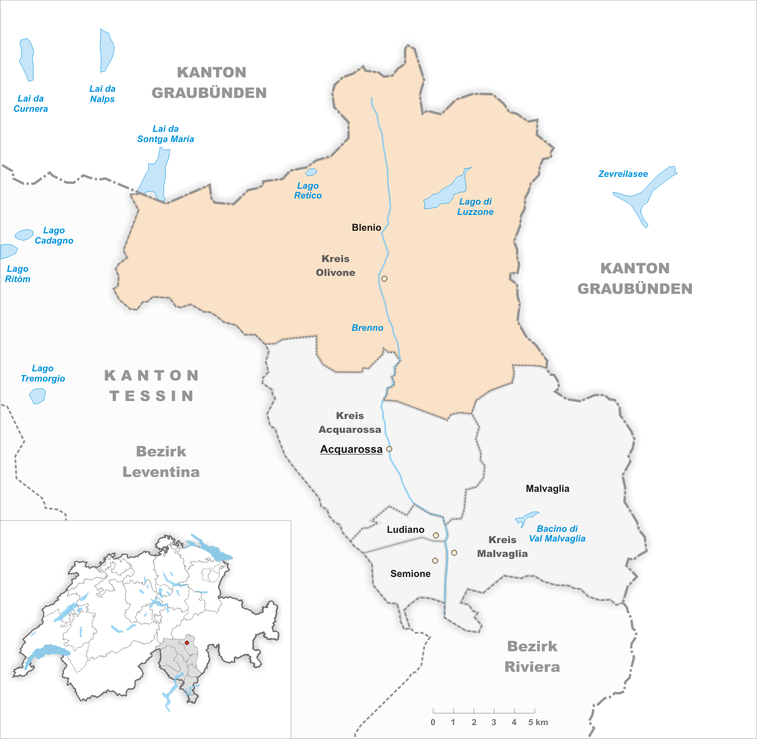 Municipality Blenio